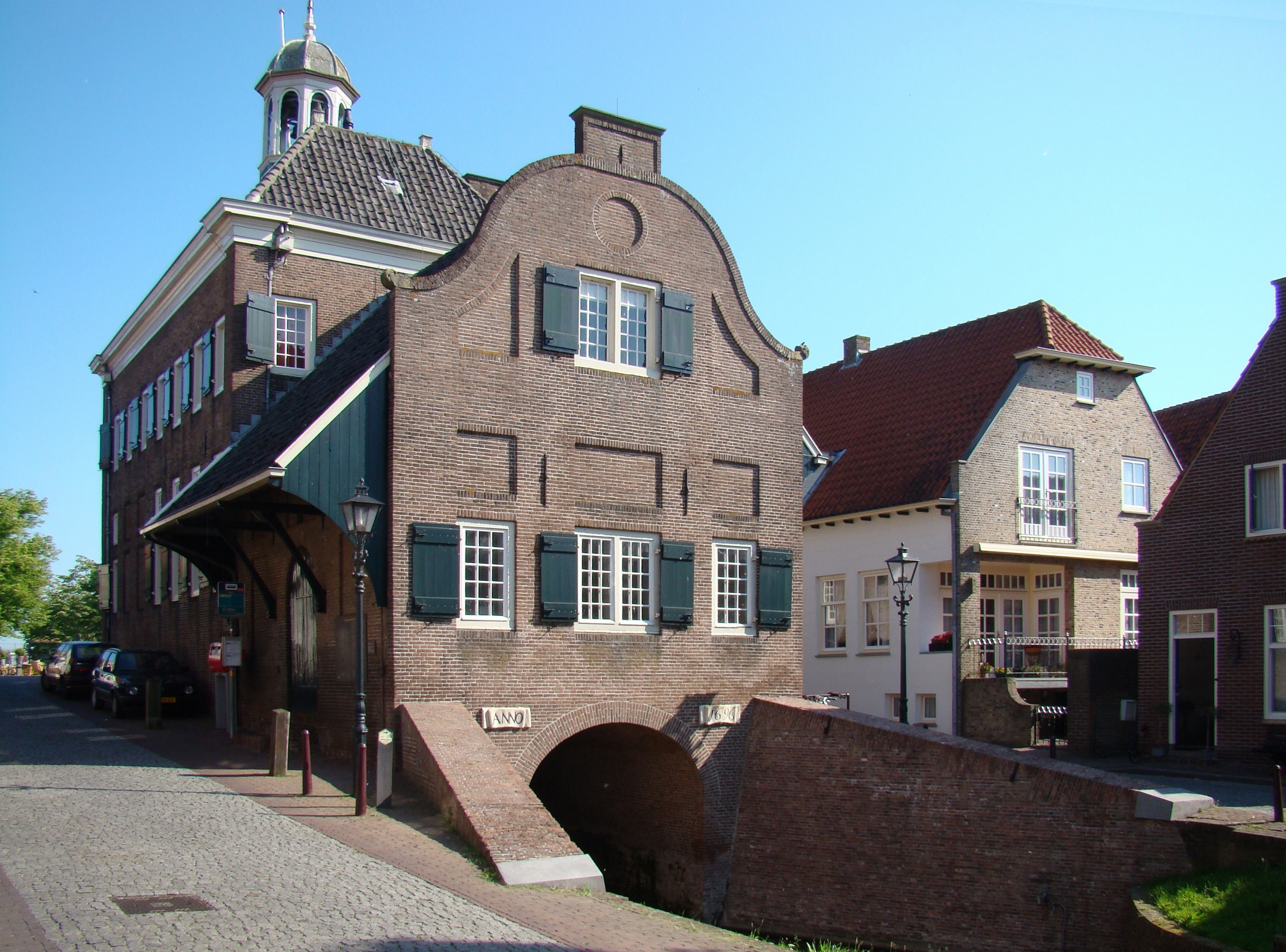 Cityhal Nieuwpoort (Netherlands)